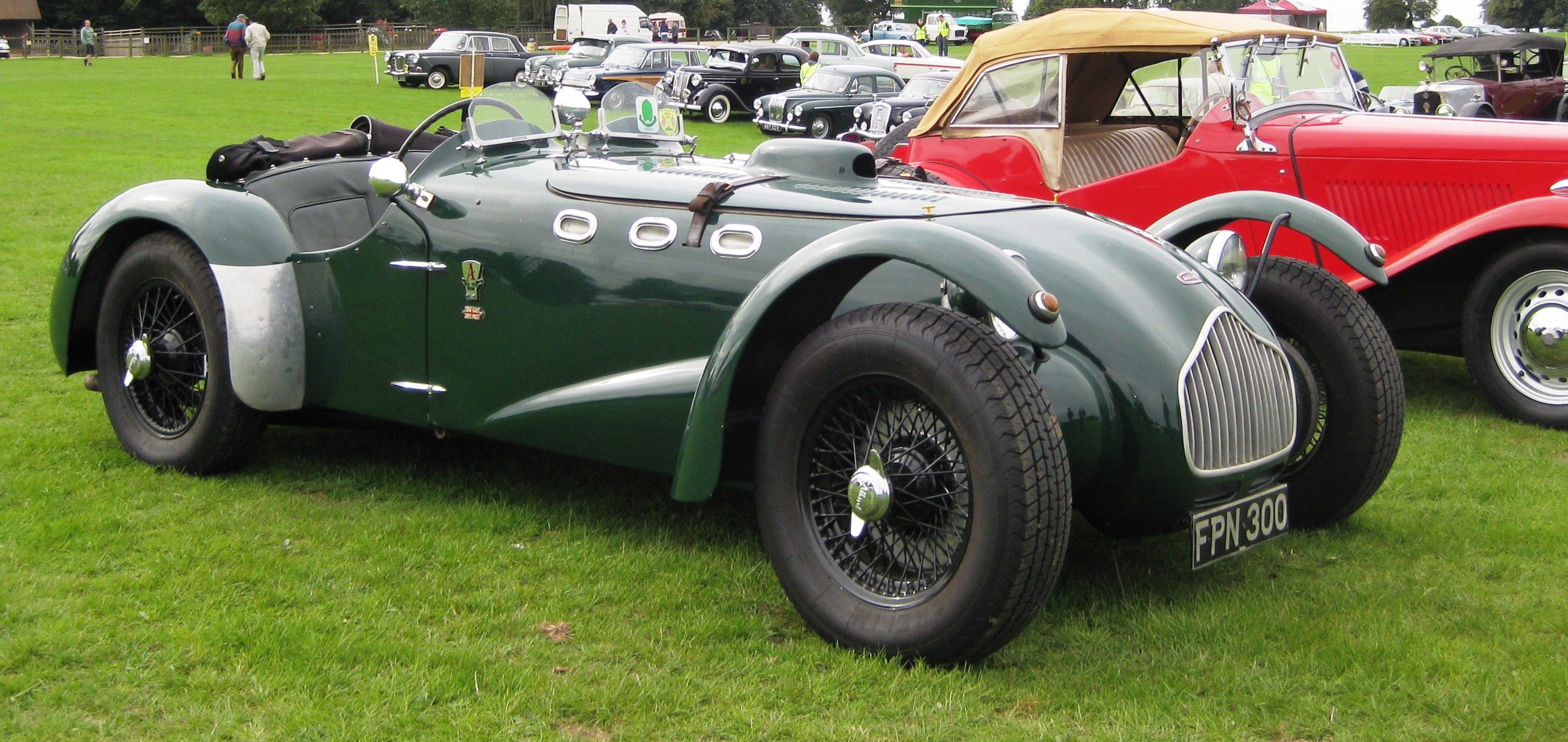 1951 Allard J2 at Classic car show at Knebworth. This car was heavily rebuilt following being crashed in the '80s.